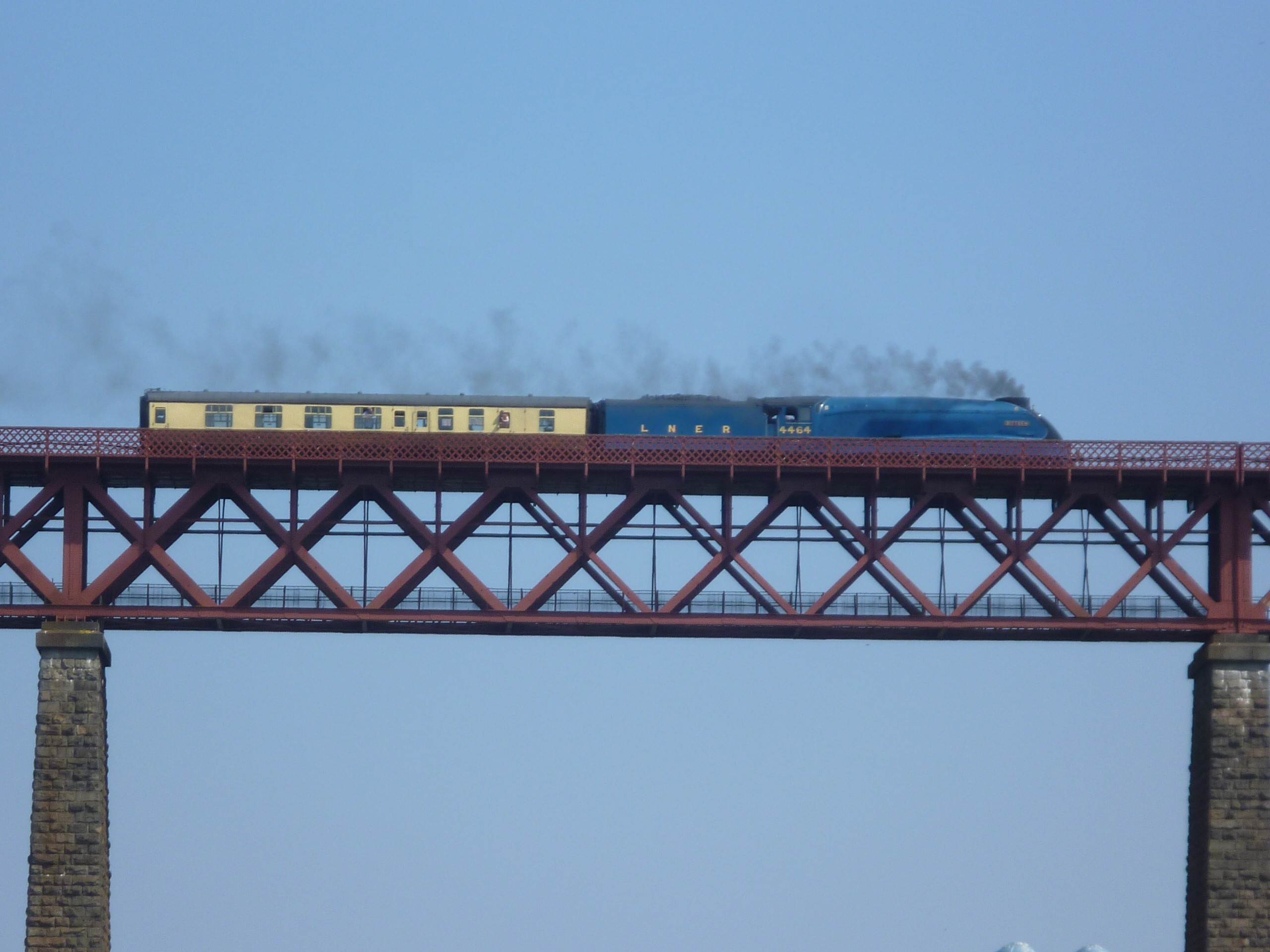 LNER Class A4 4464 Bittern on the Forth Bridge, 23rd May 2012